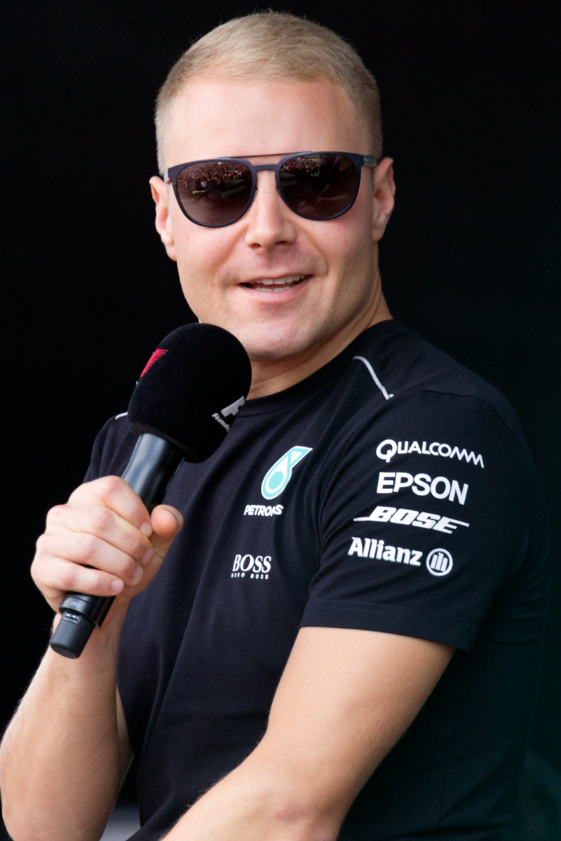 Formula One 2017 Rd.15 Malaysian GP: Valtteri Bottas (Mercedes) at the fan meeting